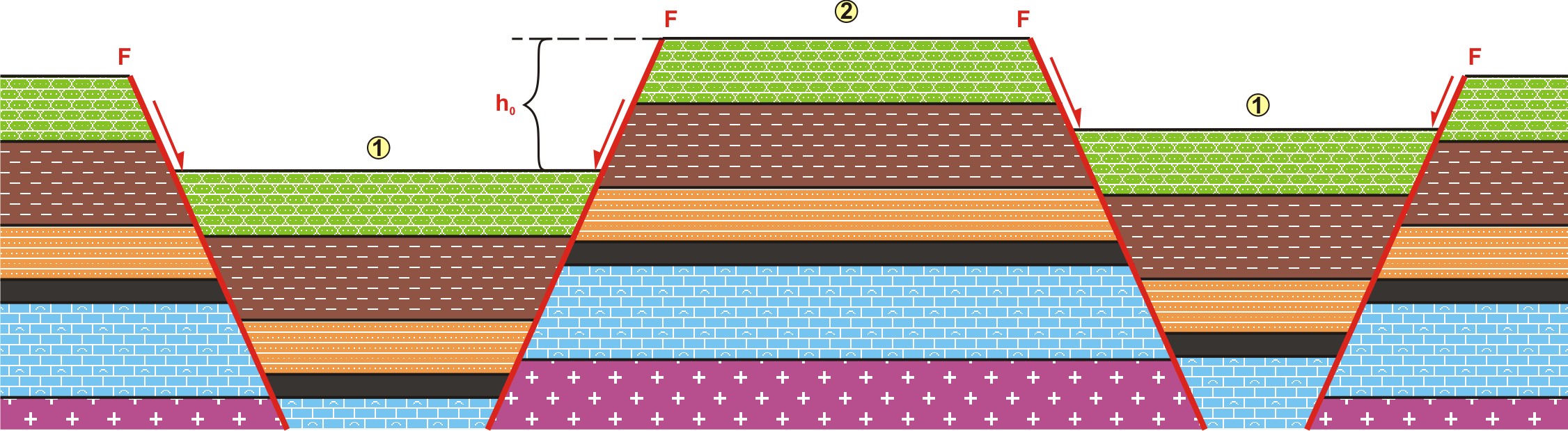 Geological cross-section of simple Gorst